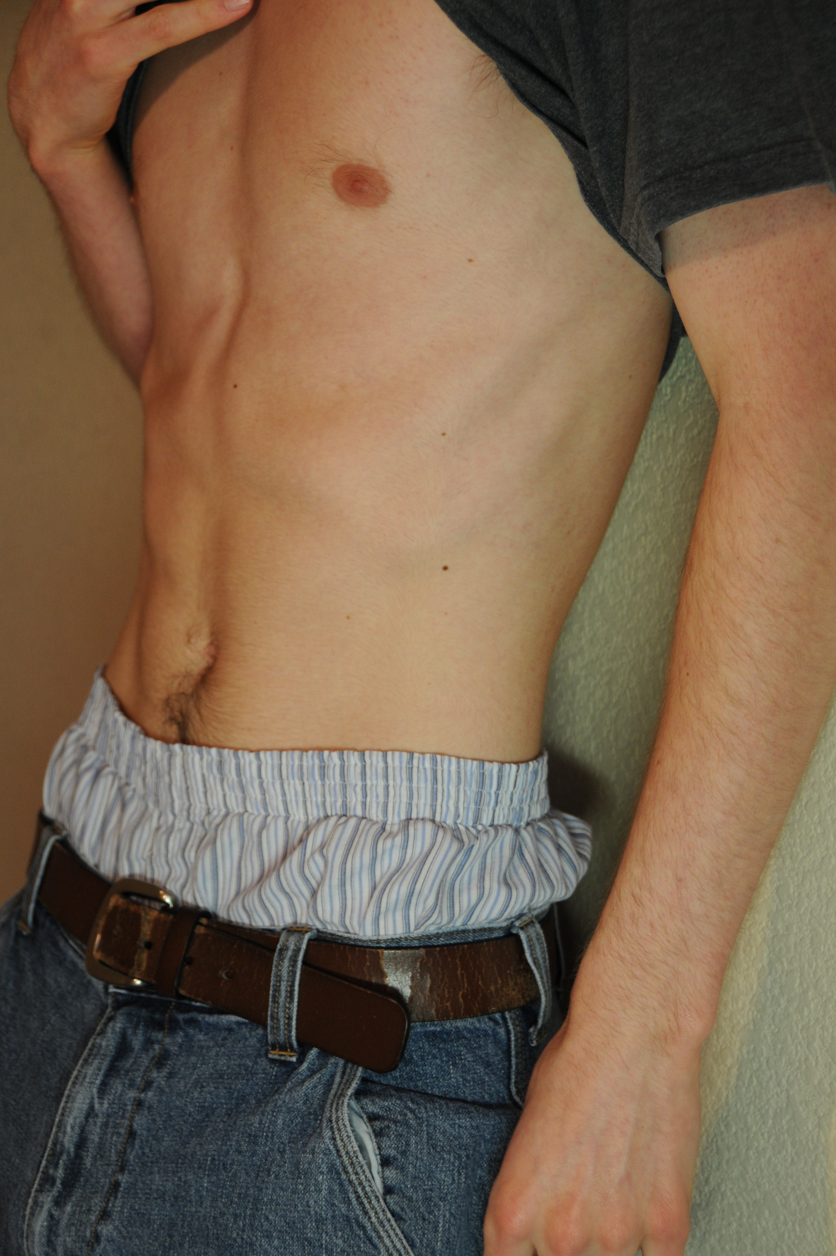 Man sagging with woven boxer shorts.